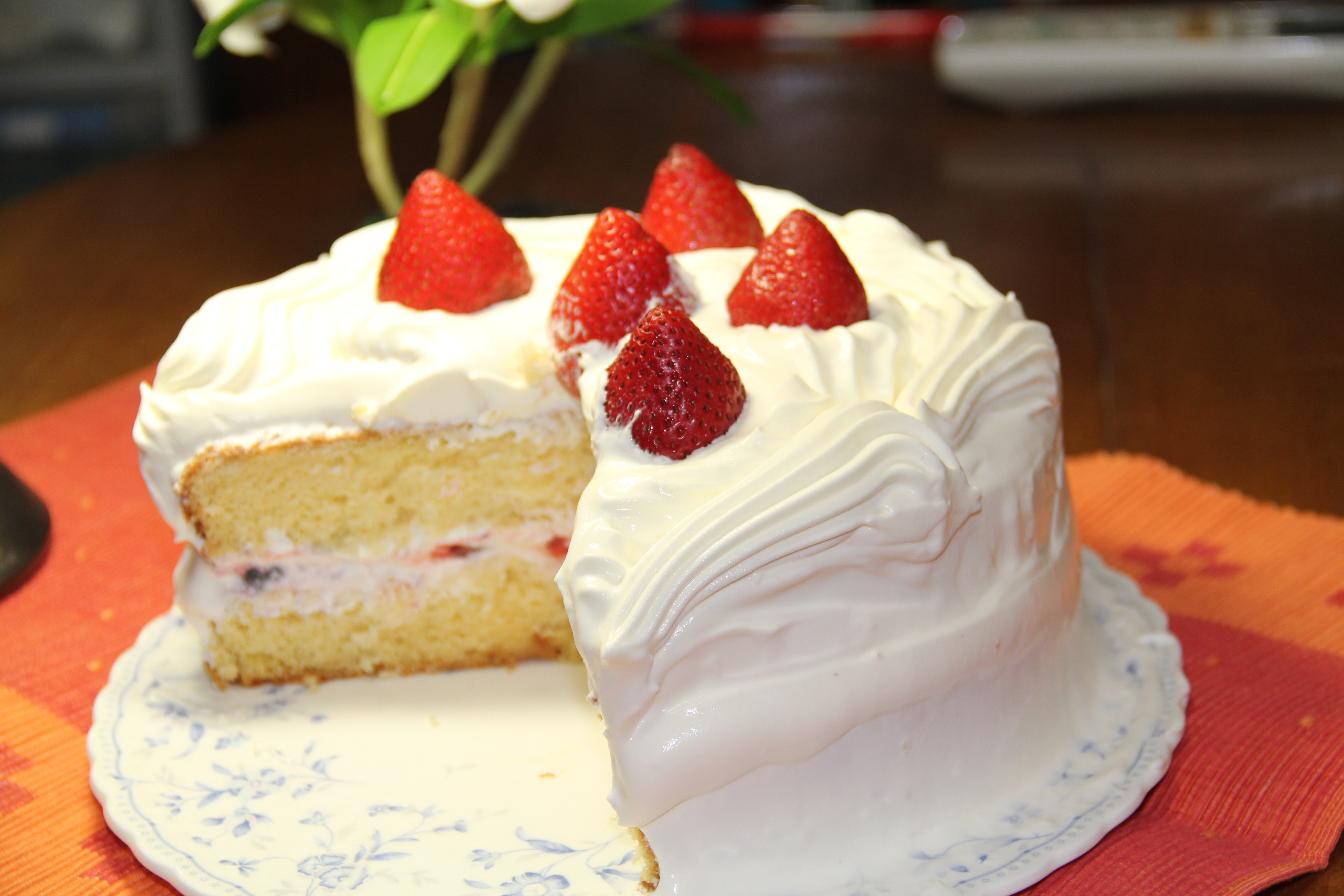 making Shortcake